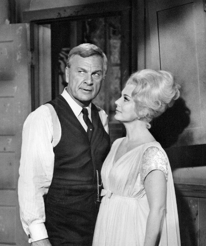 Photo of Eddie Albert and Eva Gabor from the television program Green Acres.